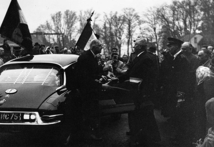 Le Général de Gaulle est accueilli par Claude Guyot à Arnay-le-Duc le 18 avril 1959